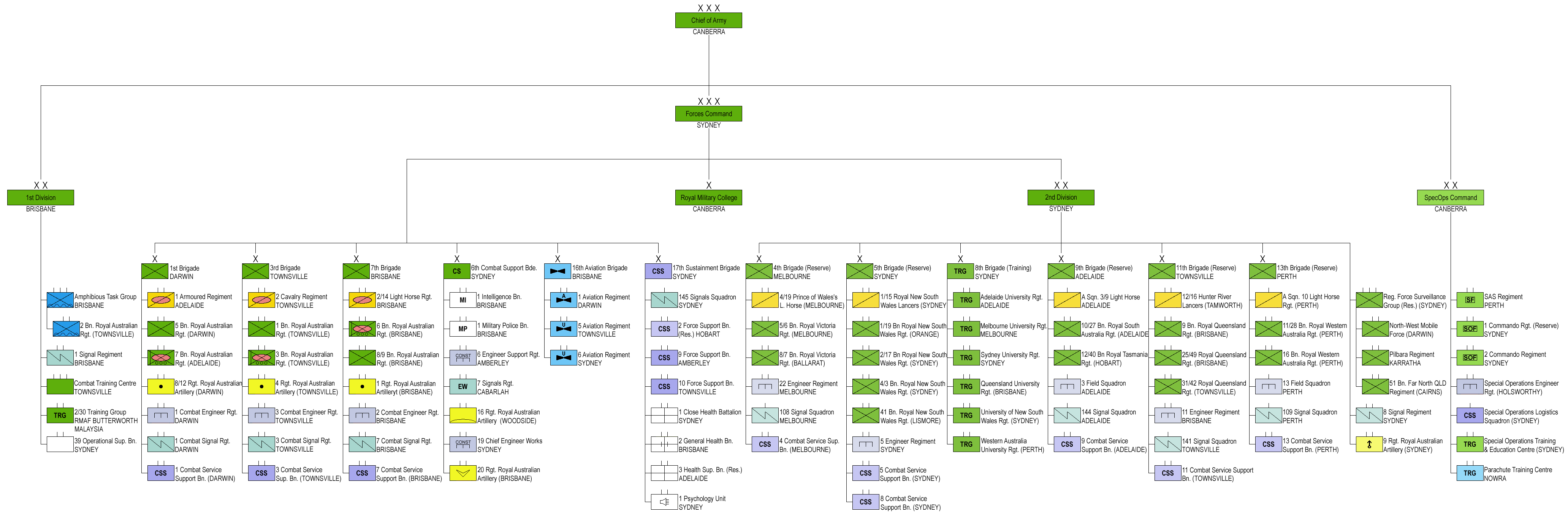 Australian Land Forces structure from January 2018 Source: Australian Army official order of battle